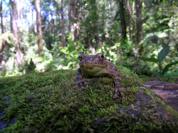 Platypelis grandis